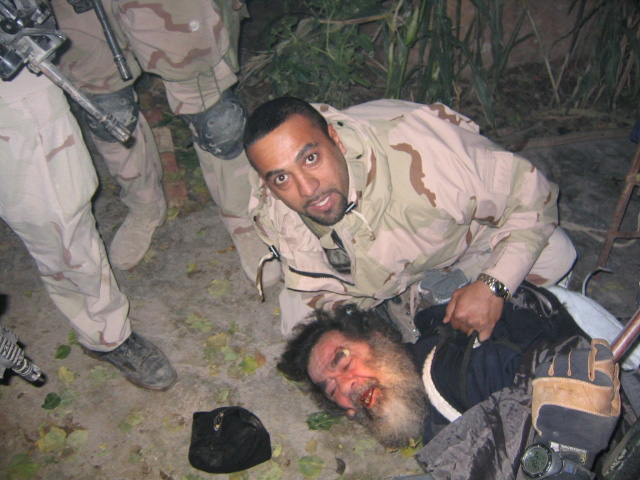 Iraqi-American, Samir, 34, pinning deposed Iraqi leader Saddam Hussein to the ground during his capture in Tikrit, on Saturday, December 13, 2003. Samir was the translator for the U.S. Special Forces that helped find Hussein and pull him from his hiding place on December 13, 2003. Samir later met with U.S. President Bush and thanked him for liberating Iraq.